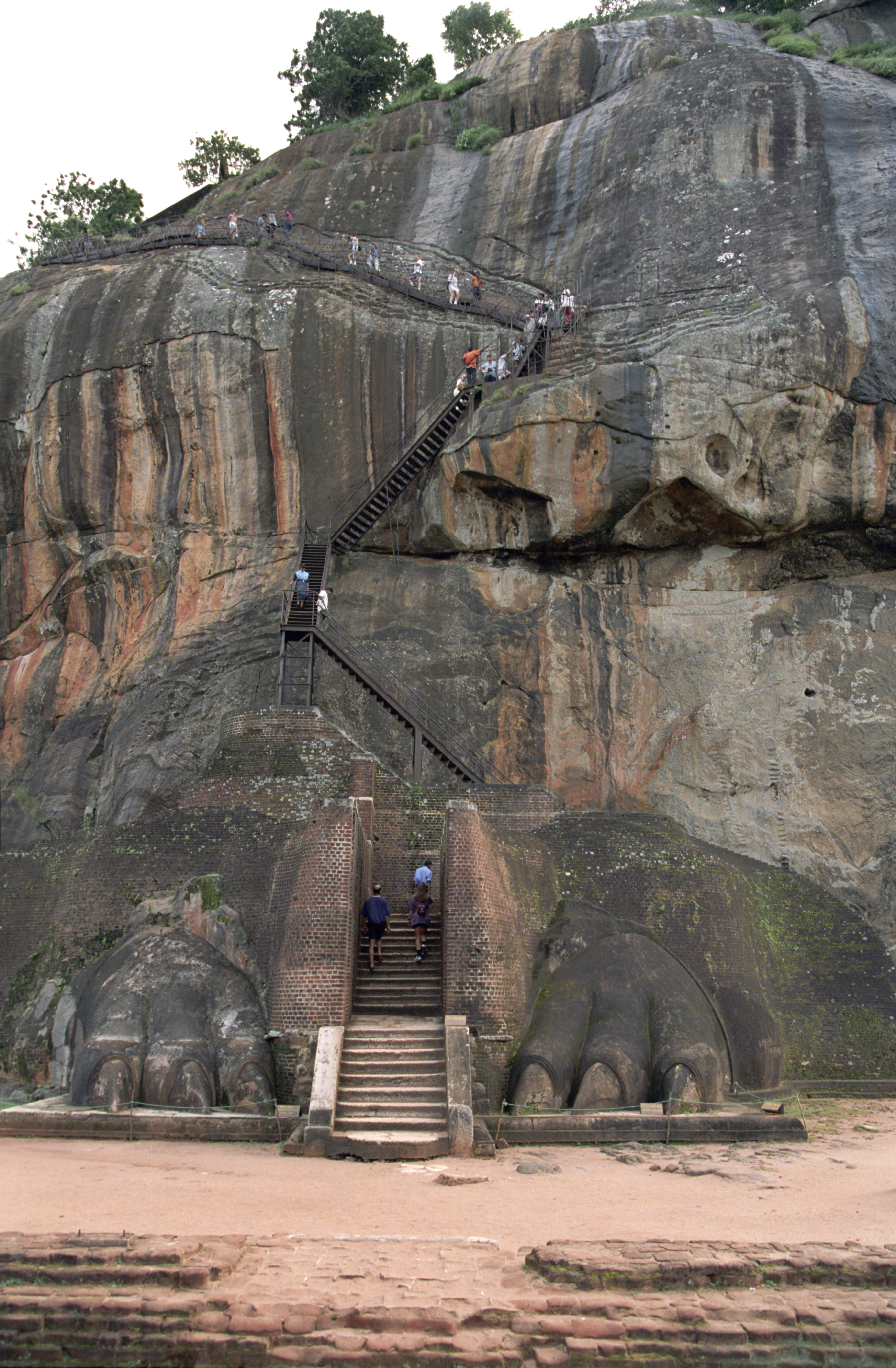 The "Lion Gate", Sigiriya, Sri Lanka